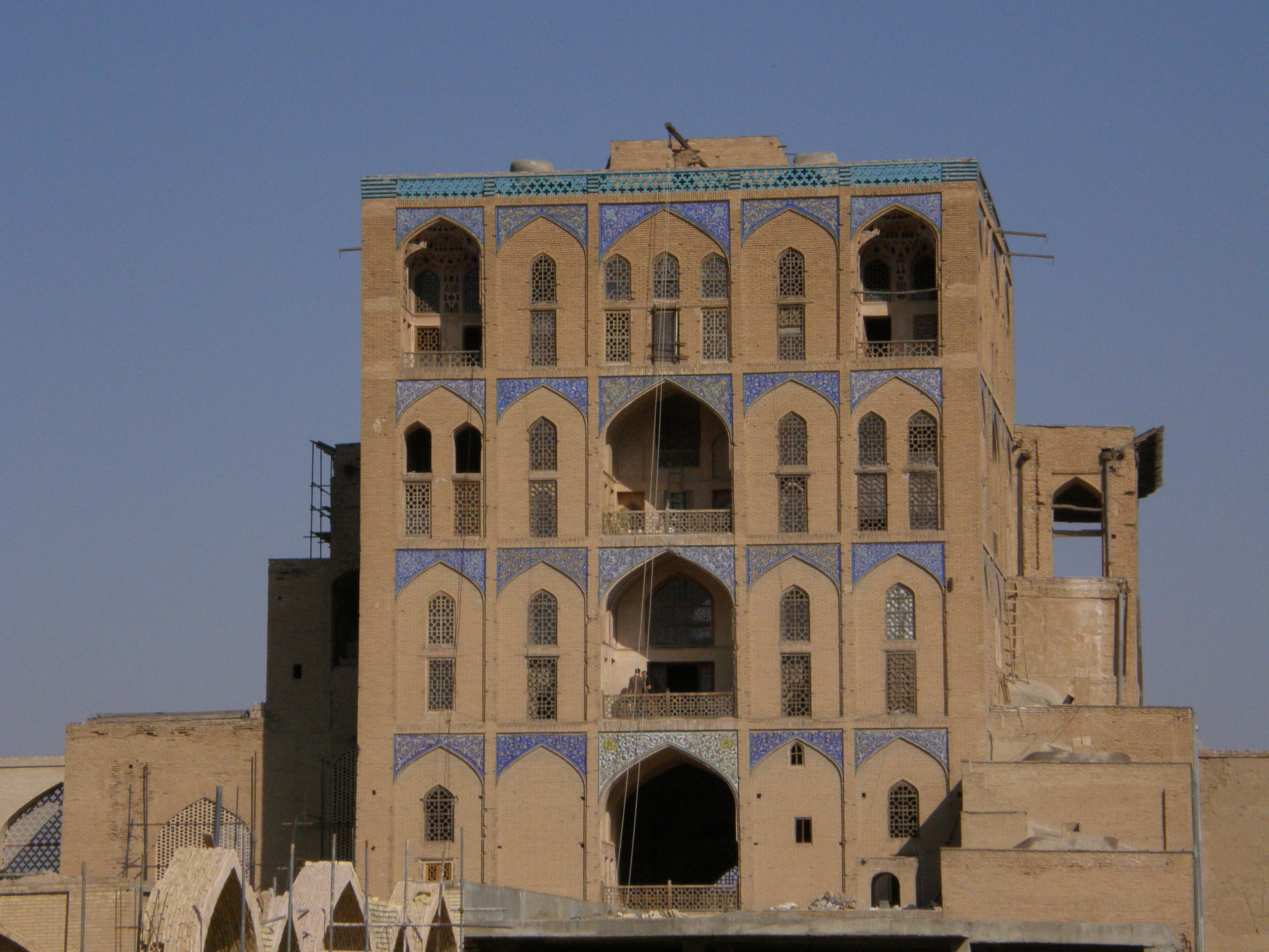 Ali Qapu. Isfahan, Iran (west view)